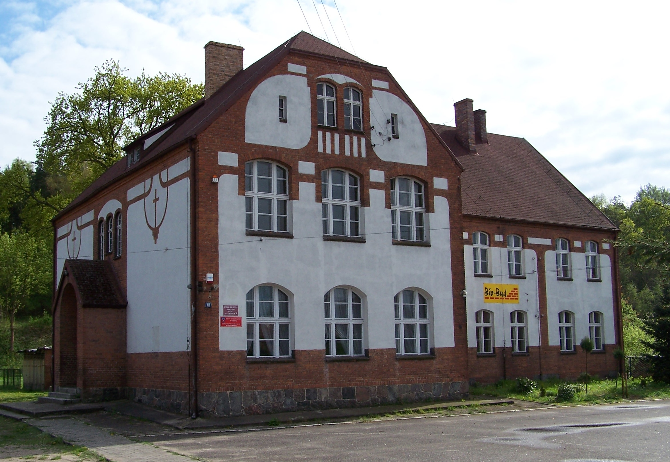 Former school in Lipki Wielkie (PL)